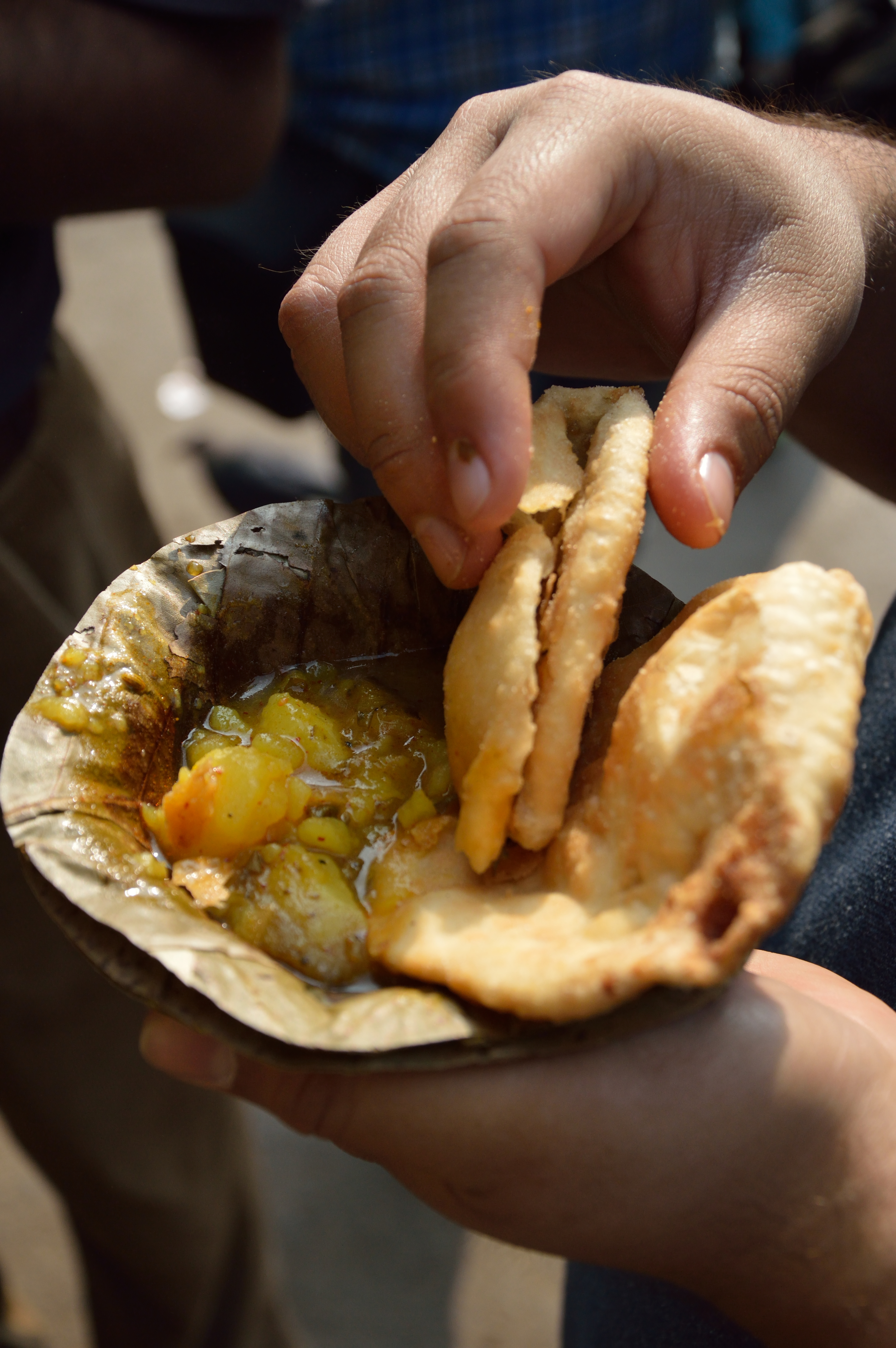 This photograph has been taken during the 'Wikipedia/Wikimedia Photowalk' event for the 'Wikipedia Takes Kolkata III' campaign on 23 Fefruary 2013, in northern part of Kolkata..